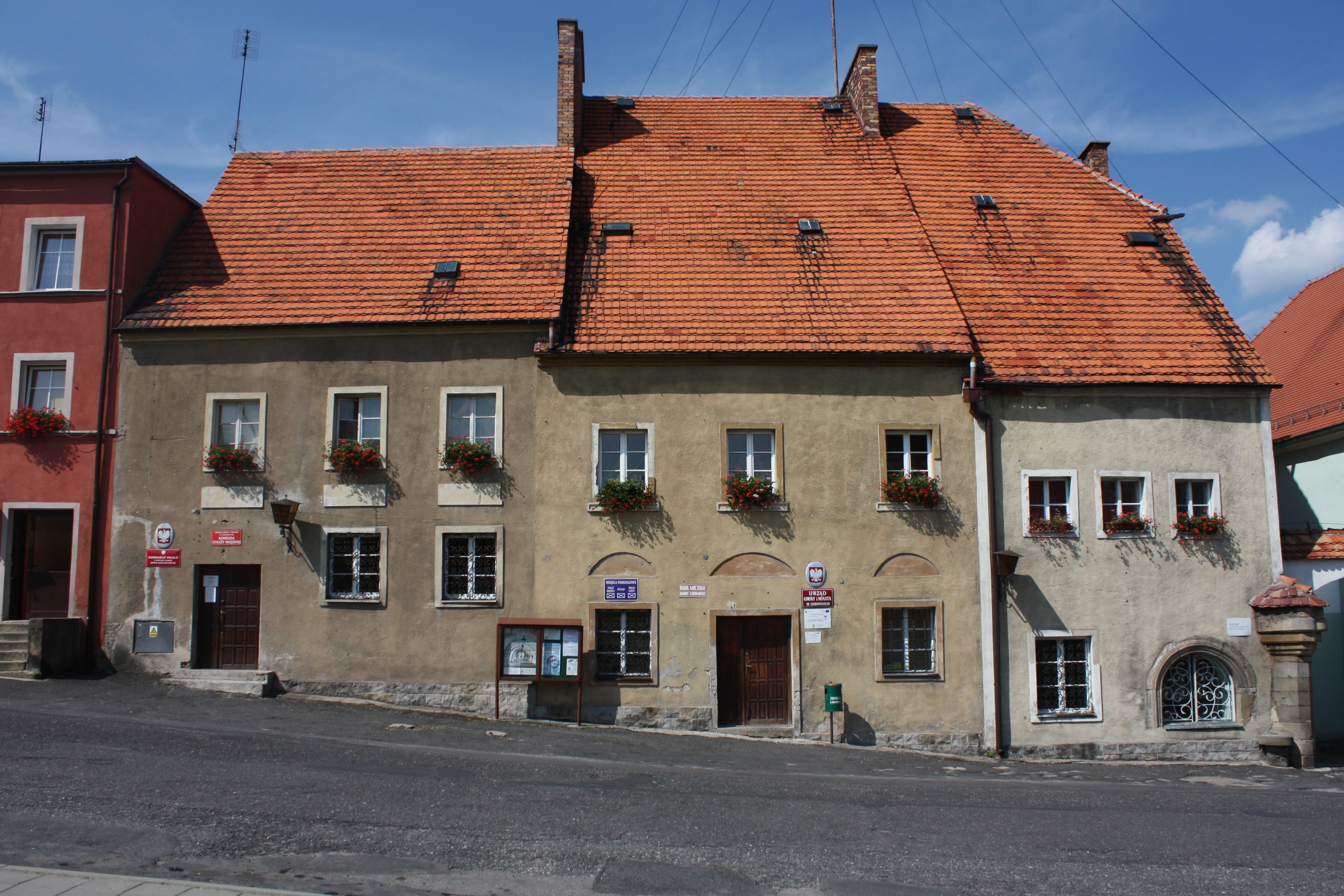 This photo of Lower Silesian Voivodeship was taken during Wikiexpedition 2013 set up by Wikimedia Polska Association. You can see all photographs in category Wikiekspedycja 2013. English | Polski | +/−